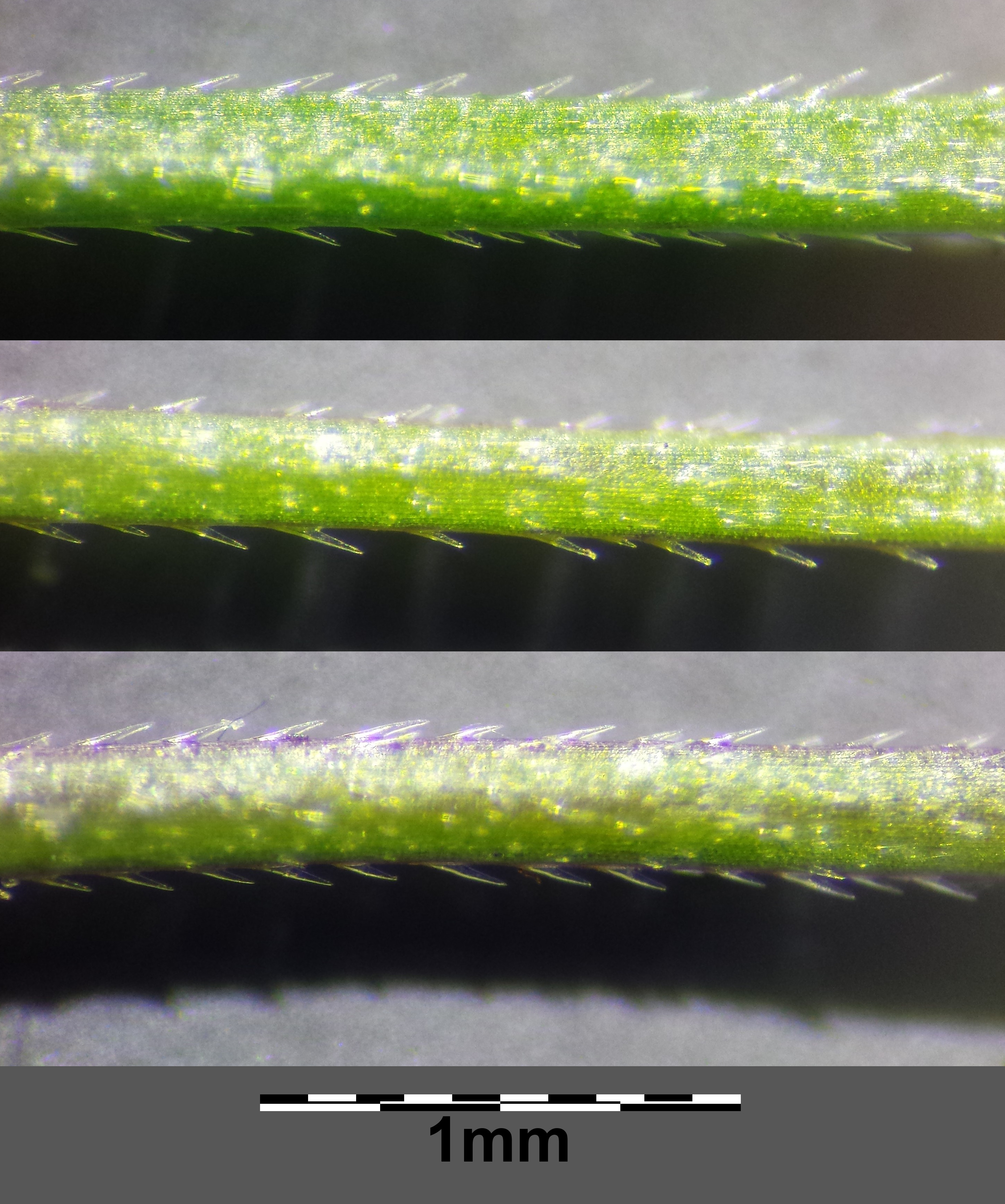 Branches of panicle Taxonym: Bromus sterilis ss Fischer et al. EfÖLS 2008 ISBN 978-3-85474-187-9 Location: Donaupark, Vienna-Donaustadt - ca. 160 m a.s.l. Habitat: ruderal, dry meadows